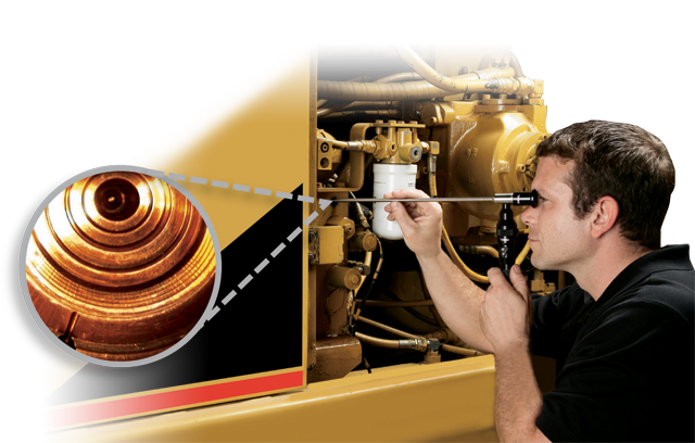 Typical borescope application with sample of image seen through borescope.